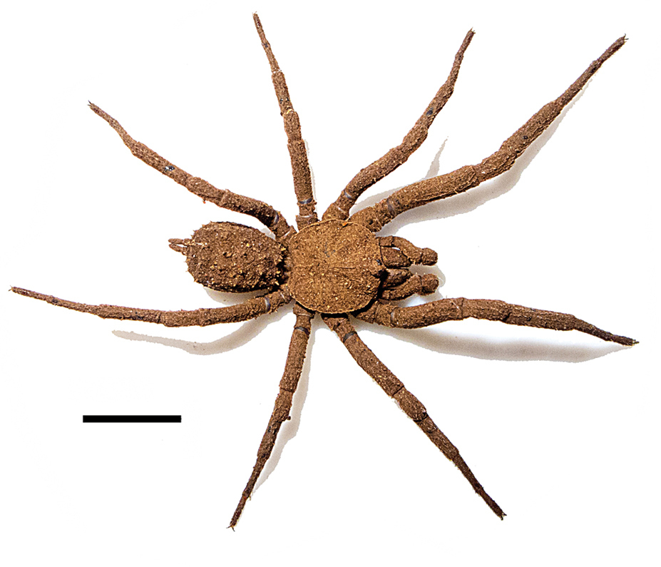 Paratropis tuxtlensis adult male. Scale bar: 4 mm